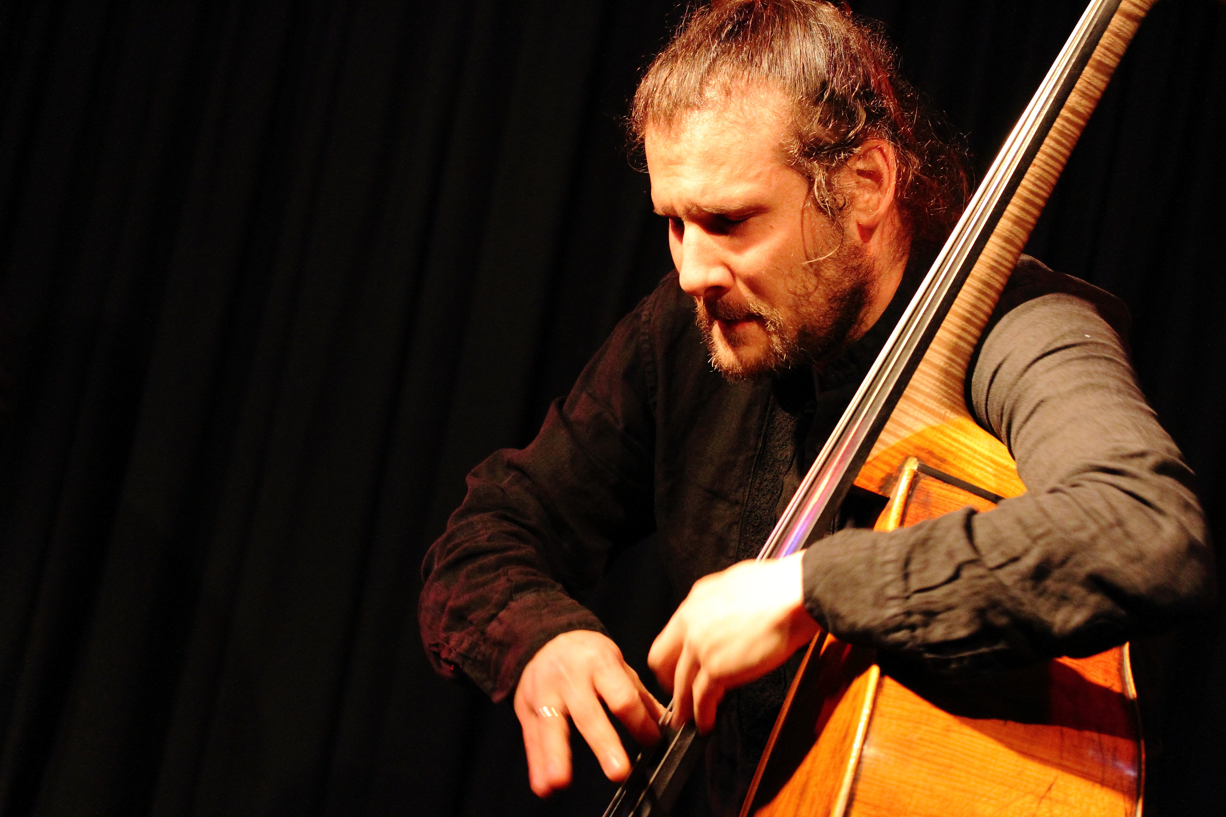 The german double bassist Pascal Niggenkemper playing with baloni at Club W71, Weikersheim.